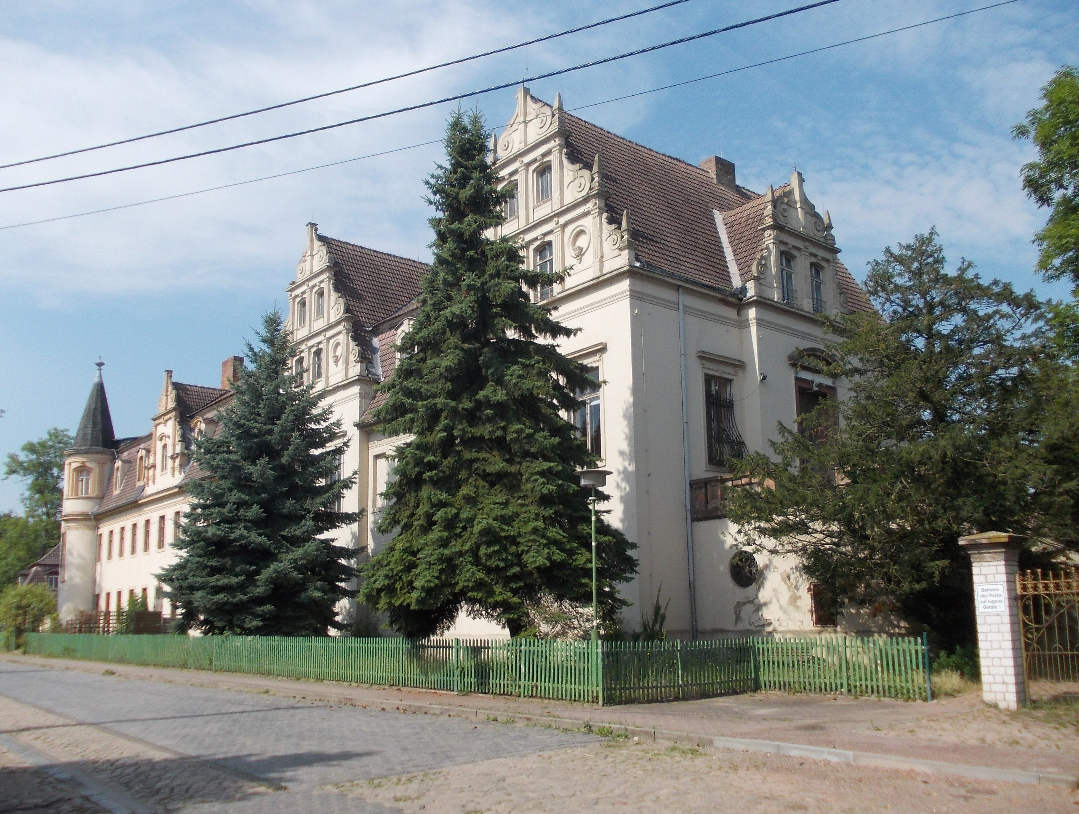 Benkendorf castle (Teutschenthal, district: Saalekreis, Saxony-Anhalt)